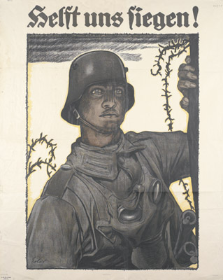 Helft uns siegen- zeichnet die Kriegsanleihe (Help us win- subscribe to the war loan) Collection the Imperial War Museum.